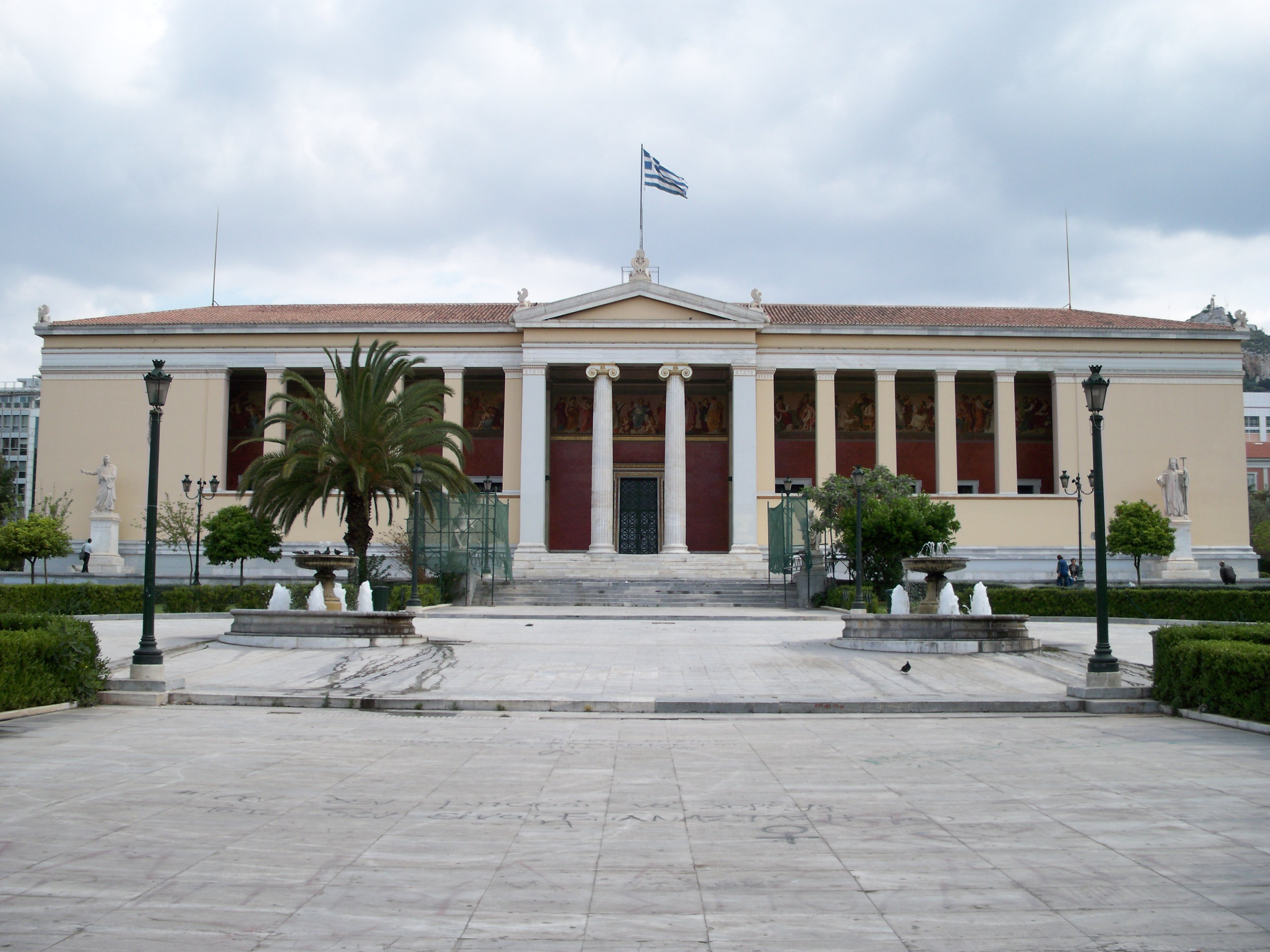 The Propylaea, part of the “Trilogy” of Theofil Hansen, serves as the ceremony hall and rectory of the National and Kapodistrian University of Athens.